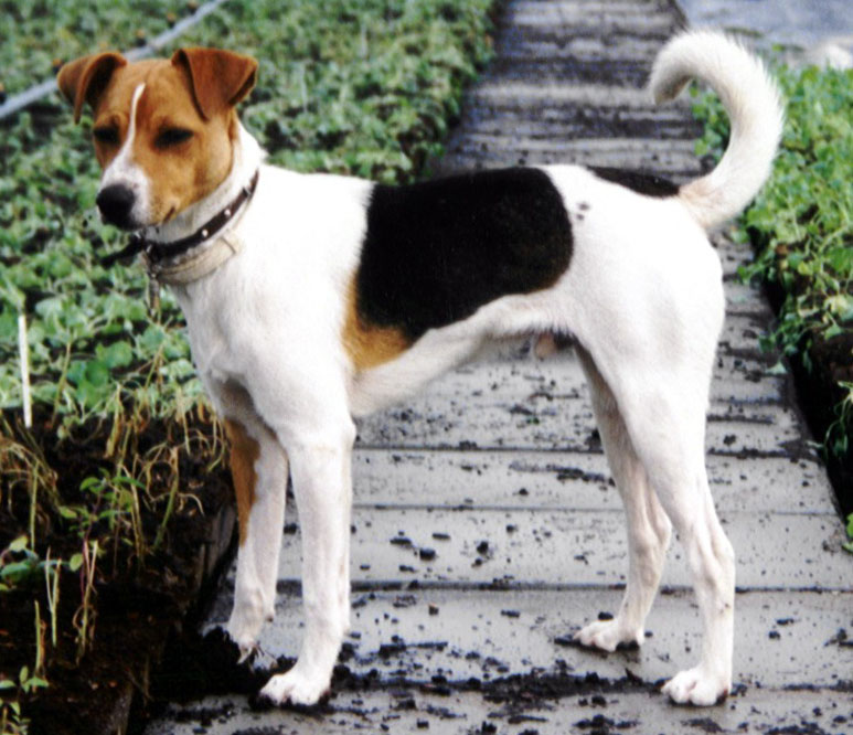 This tricoloured dog of Terrier type, possibly of mixed ancestry, exhibits several traits characteristic of Terriers, including an inherited instinct for digging. Smooth Fox Terrier (?) – presumably not standard one, but perhaps a taller Parson Russel Terrier or a mixture. Probably a crossbreed or a Danish/Swedish farmdog (Swe: Dansk/svensk gårdshund). - See talk page!